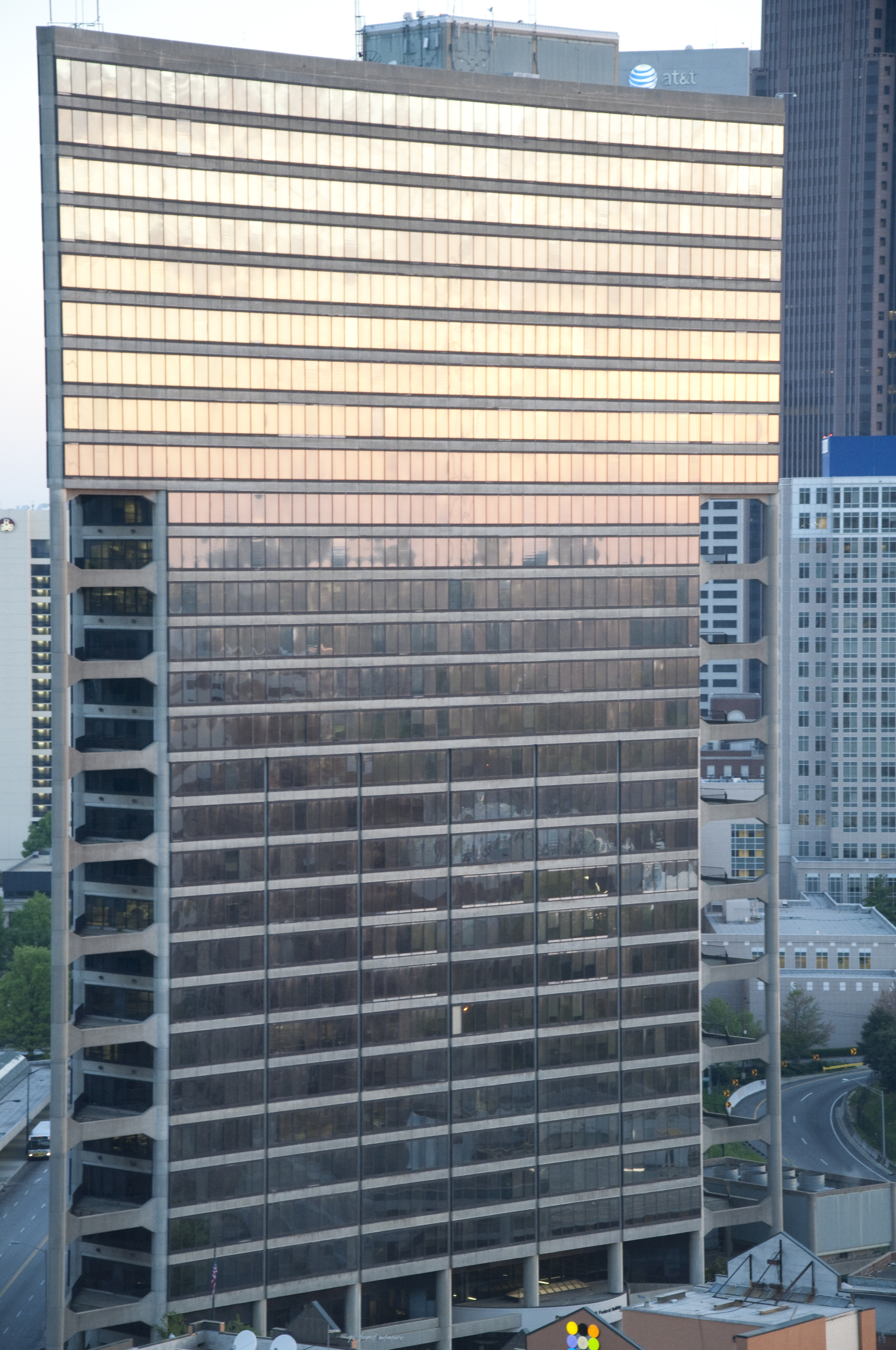 Sunrise from hotel Hyatt Regency Hotel CHI 2010